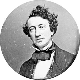 Daguerreotype of John A. Macdonald.